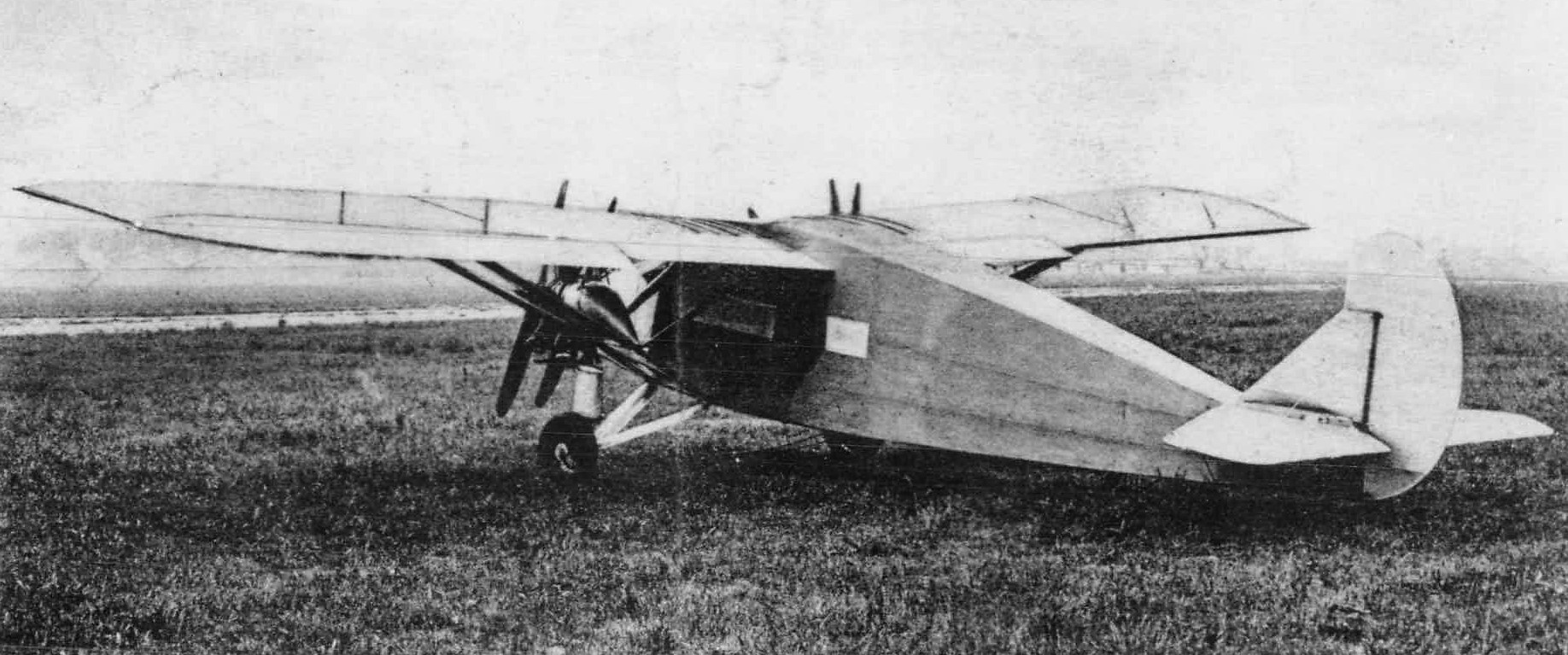 Caproni Ca.97 photo from NACA Aircraft Circular No.84